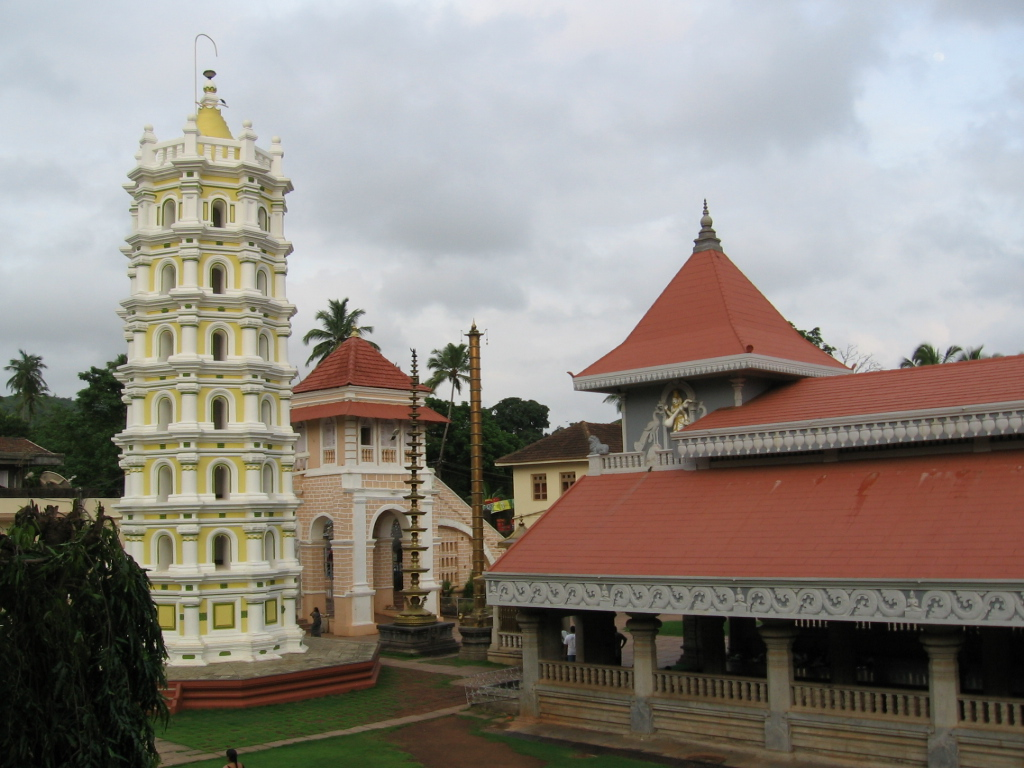 Created by Devayani Tirthali. Photo taken at Mahalasa Temple, Mhardol, Goa, India in July 2006